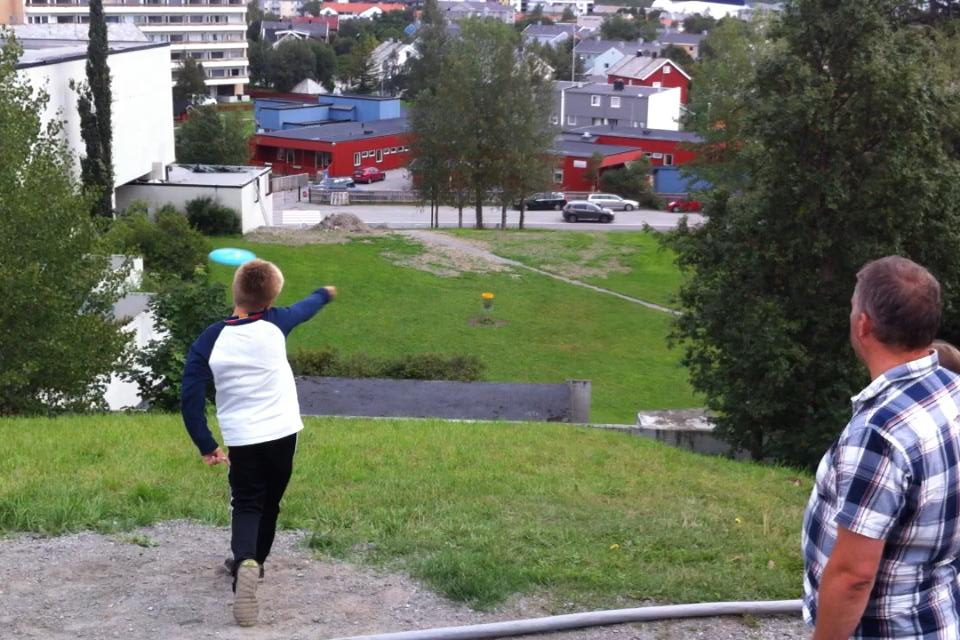 Frisbeegolf in Rensåsparken